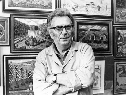 This photo depicts the artist Siegfried Kratochwil and is being furnished by the author and copyright holder, Aryan Siegfried Assadi.